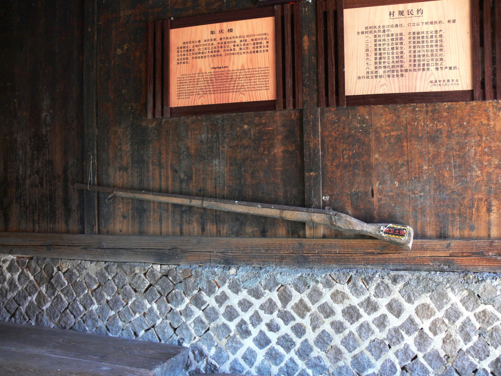 Gun for defense in Jiqinglou